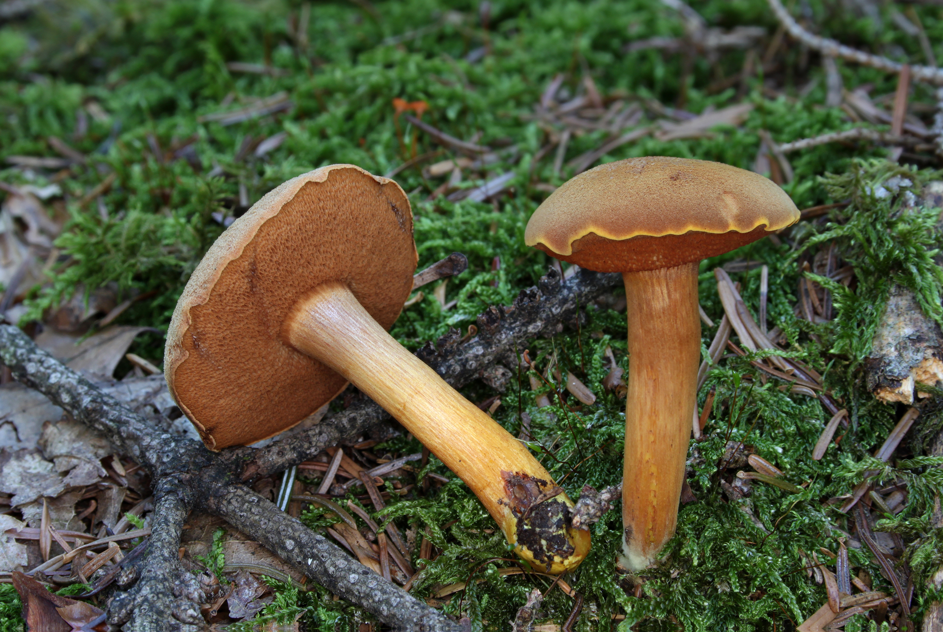 Peppery bolete, Chalciporus piperatus syn. Boletus piperatus, Family: Boletaceae, Location: Germany, Ulm, Eggingen